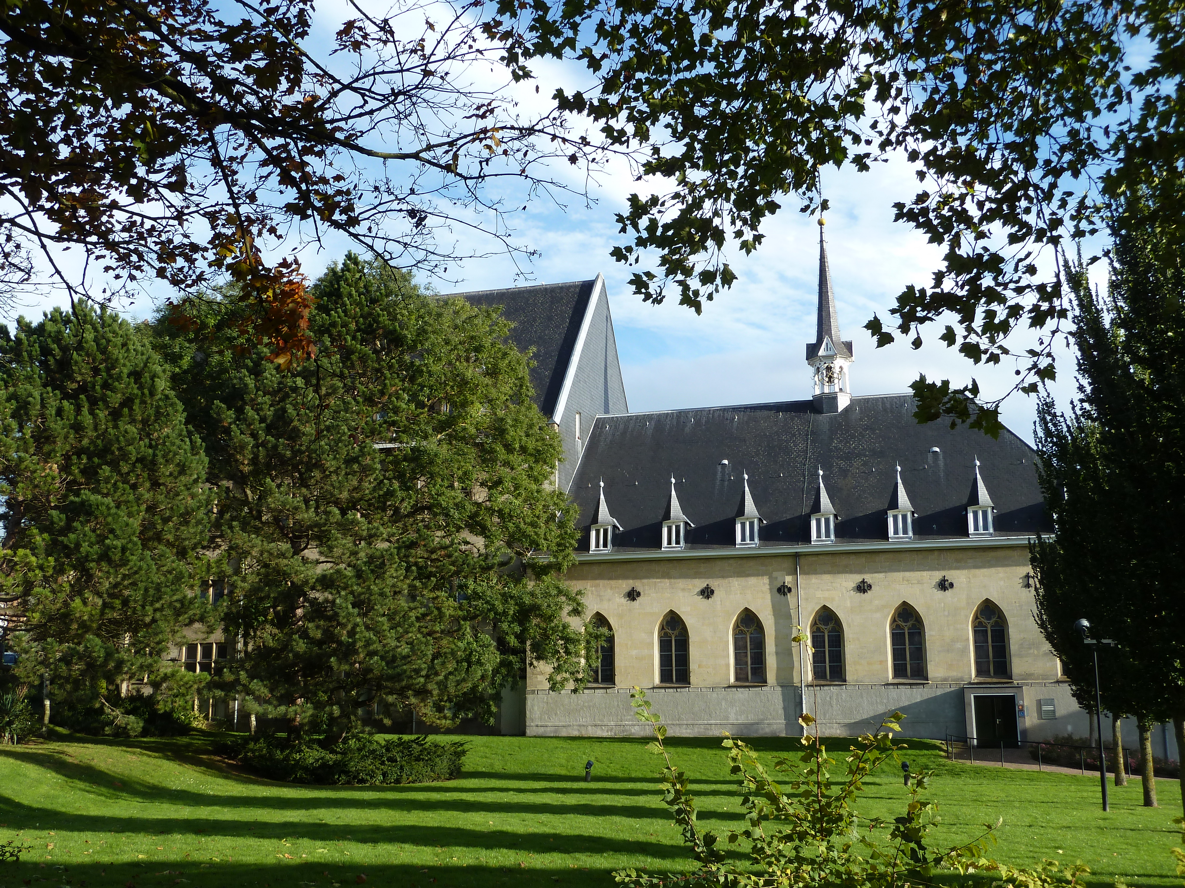 Oosterweg 1, Valkenburg, Limburg, the Netherlands